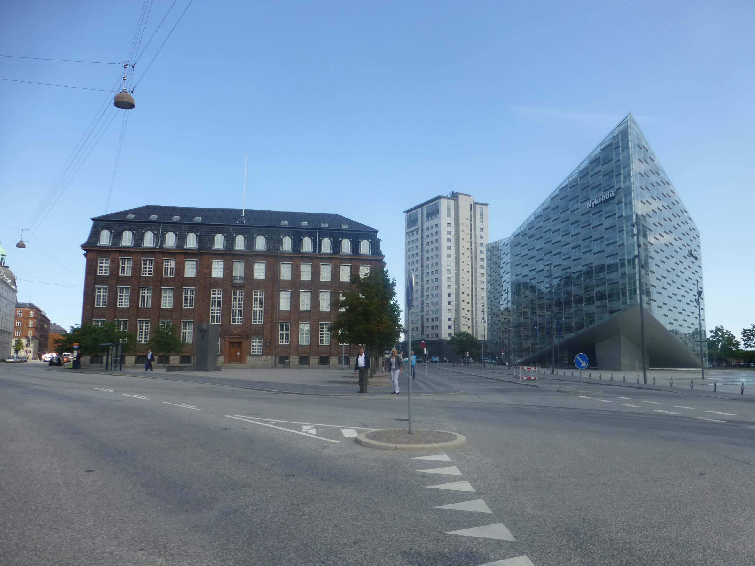 The Square Otto Mønsteds Plads in Vesterbro in Copenhagen.